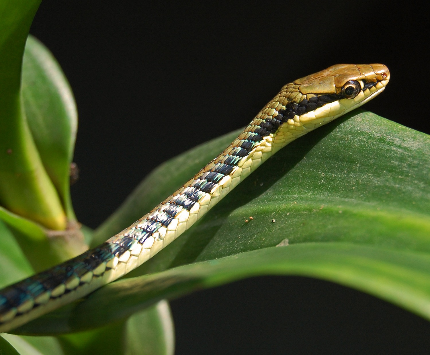 Dendrelaphis pictus, from Bogor, West Java, Indonesia